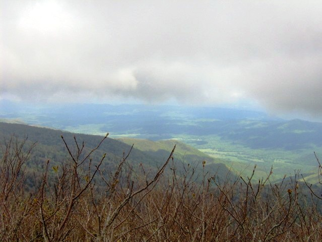 Looking northwest from the summit of Rocky Top in the Great Smoky Mountains on the border of Tennessee and North Carolina. Cades Cove is below. The elevation of Rocky Top, the smallest of Thunderhead's three peaks, is 5,440 feet/1,658 meters.